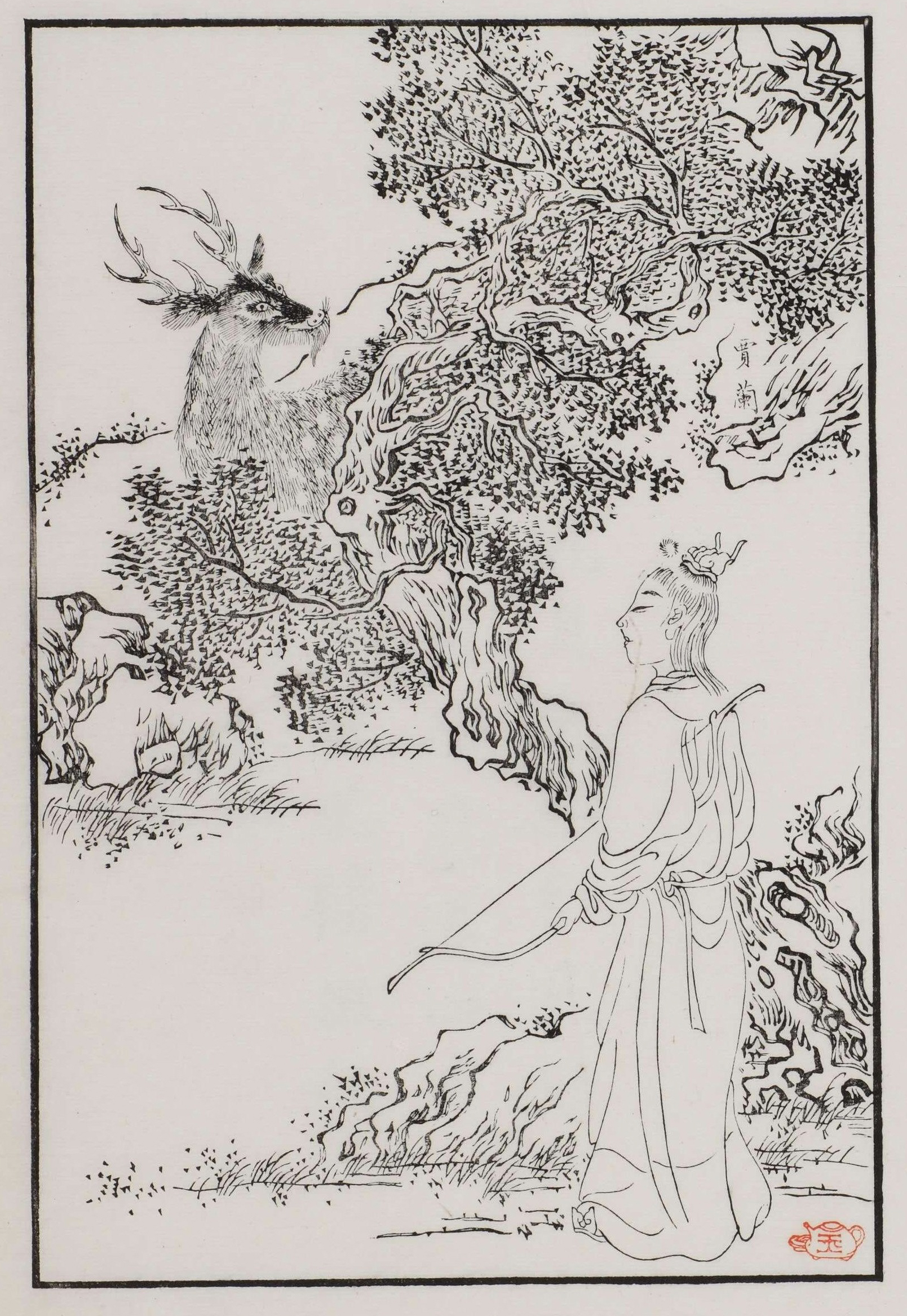 Jiǎ Lán